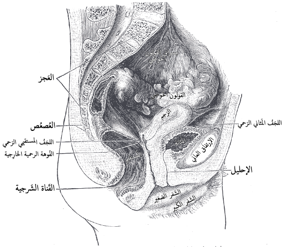 Median sagittal section of female pelvis.